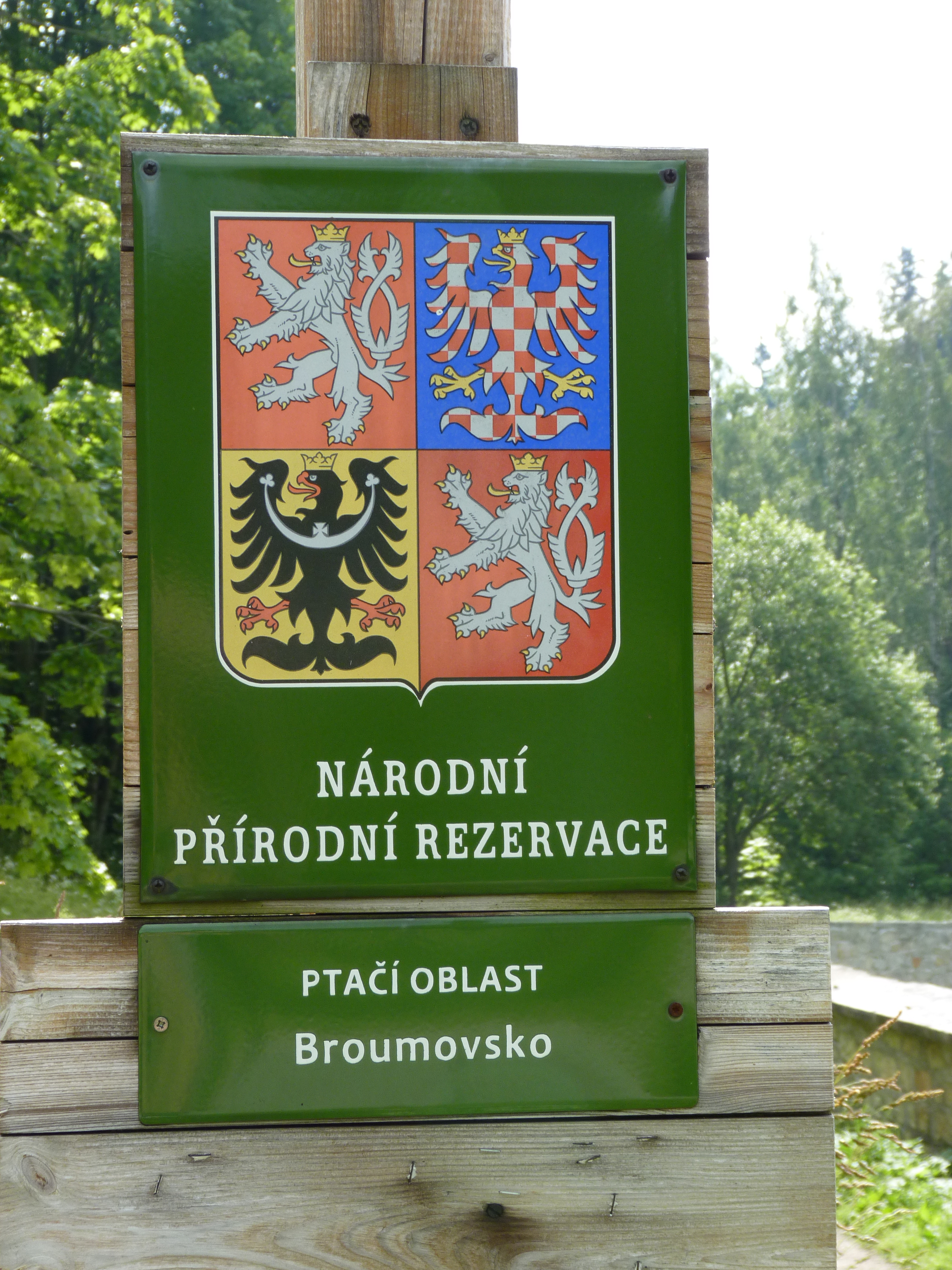 Protected landscape Broumovsko, Czech Republic